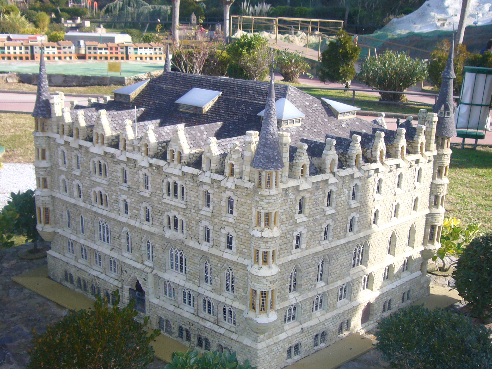 Scale model at the "Catalunya en Miniatura" miniature park : Casa Botines